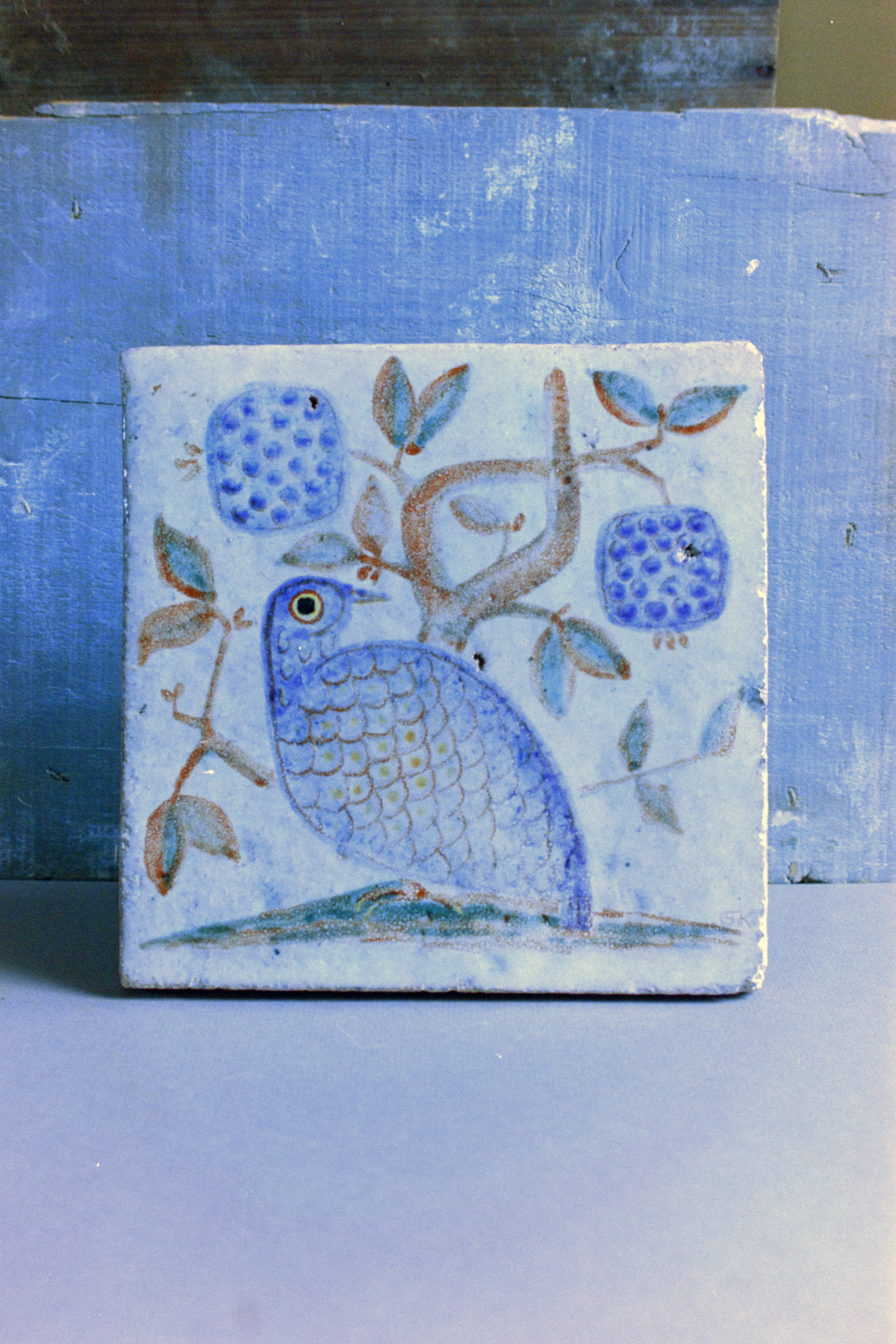 Decorated, glazed til with bird motif by Gertrud Kudielka